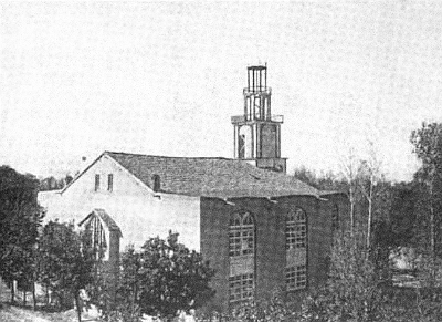 Church used by the military during Siege of Van.